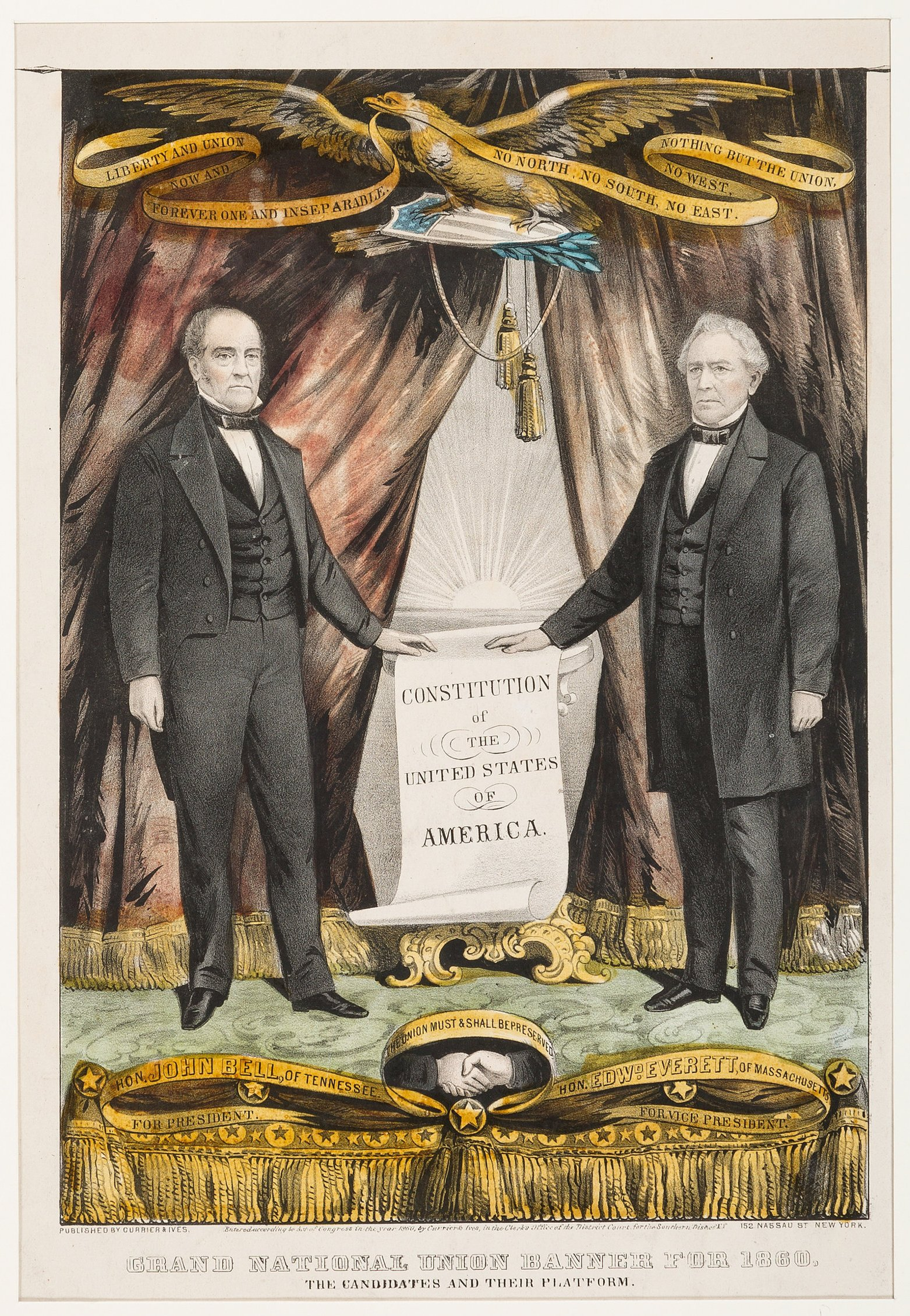 Campaign poster for 1860 U.S. presidential candidate John Bell and his running mate, Edward Everett